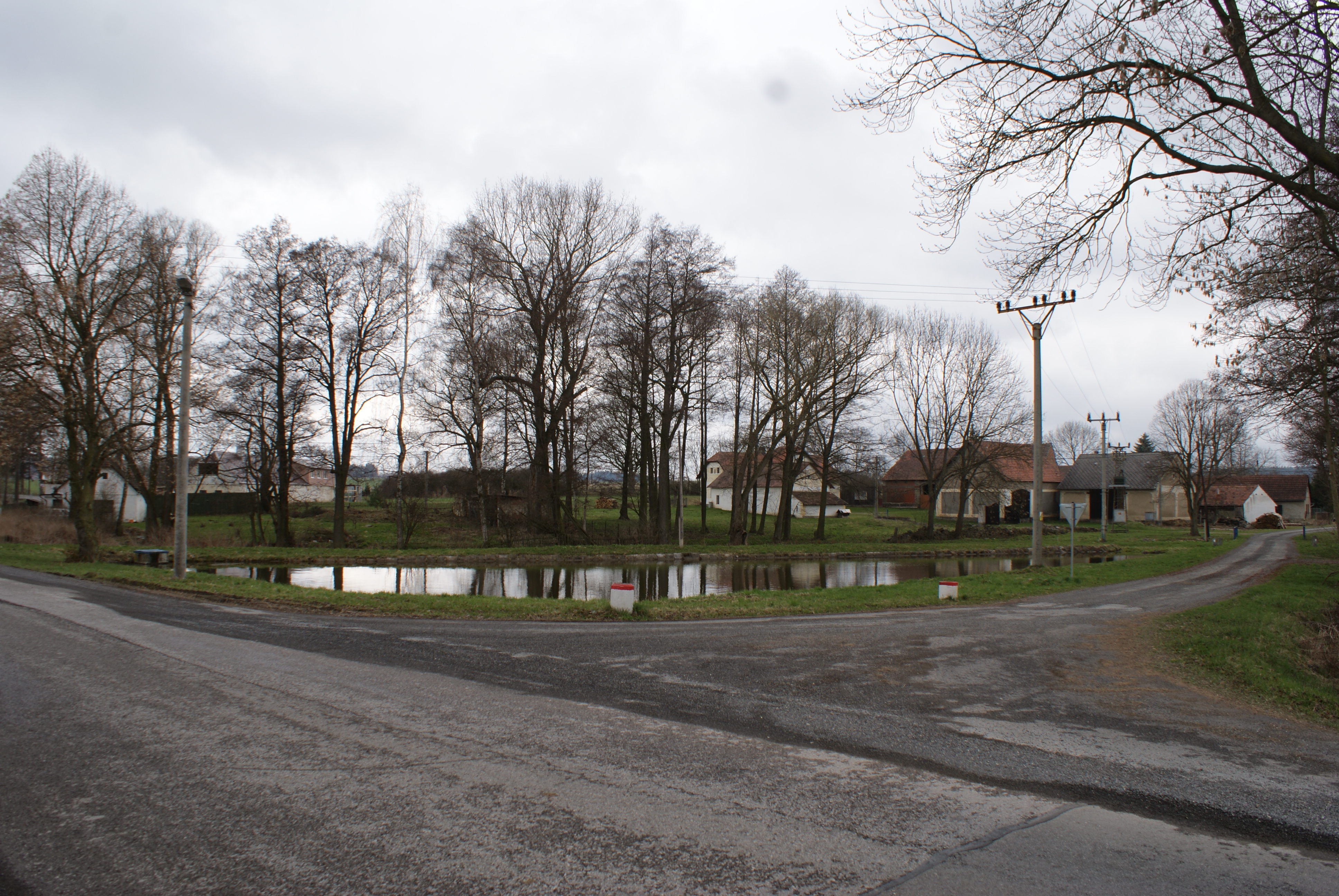 Kletice, a village in Příbram district, Czech Republic, the village common. Česky: Kletice, okres Příbram, kaplička náves